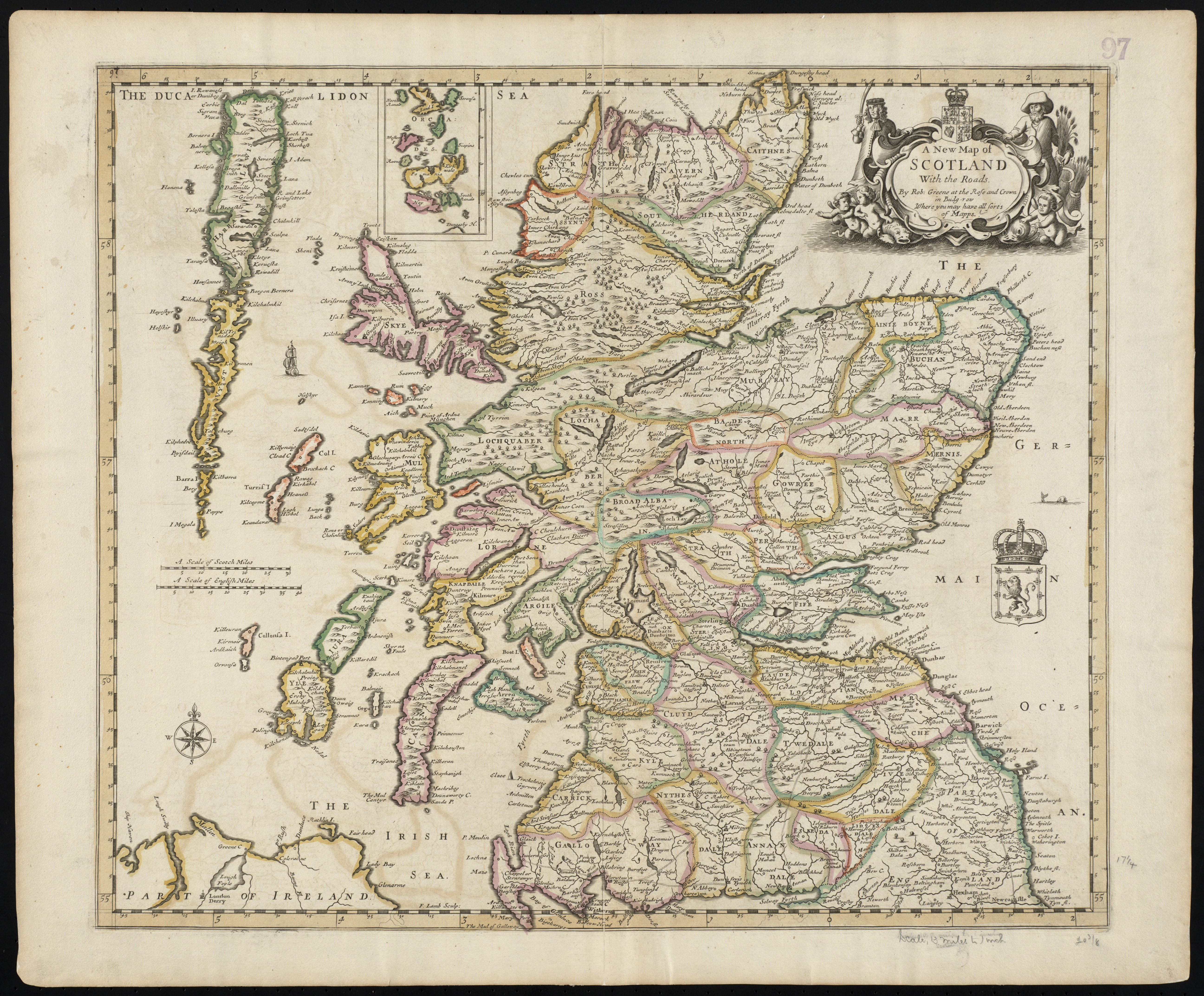 Zoom into this map at . Author: Greene, Robert Publisher: Greene, Robert Date: 1689 Location: Scotland Dimensions: 46 x 52 cm. Scale: [ca. 1:847,500] Call Number: G1015 .C651 1630